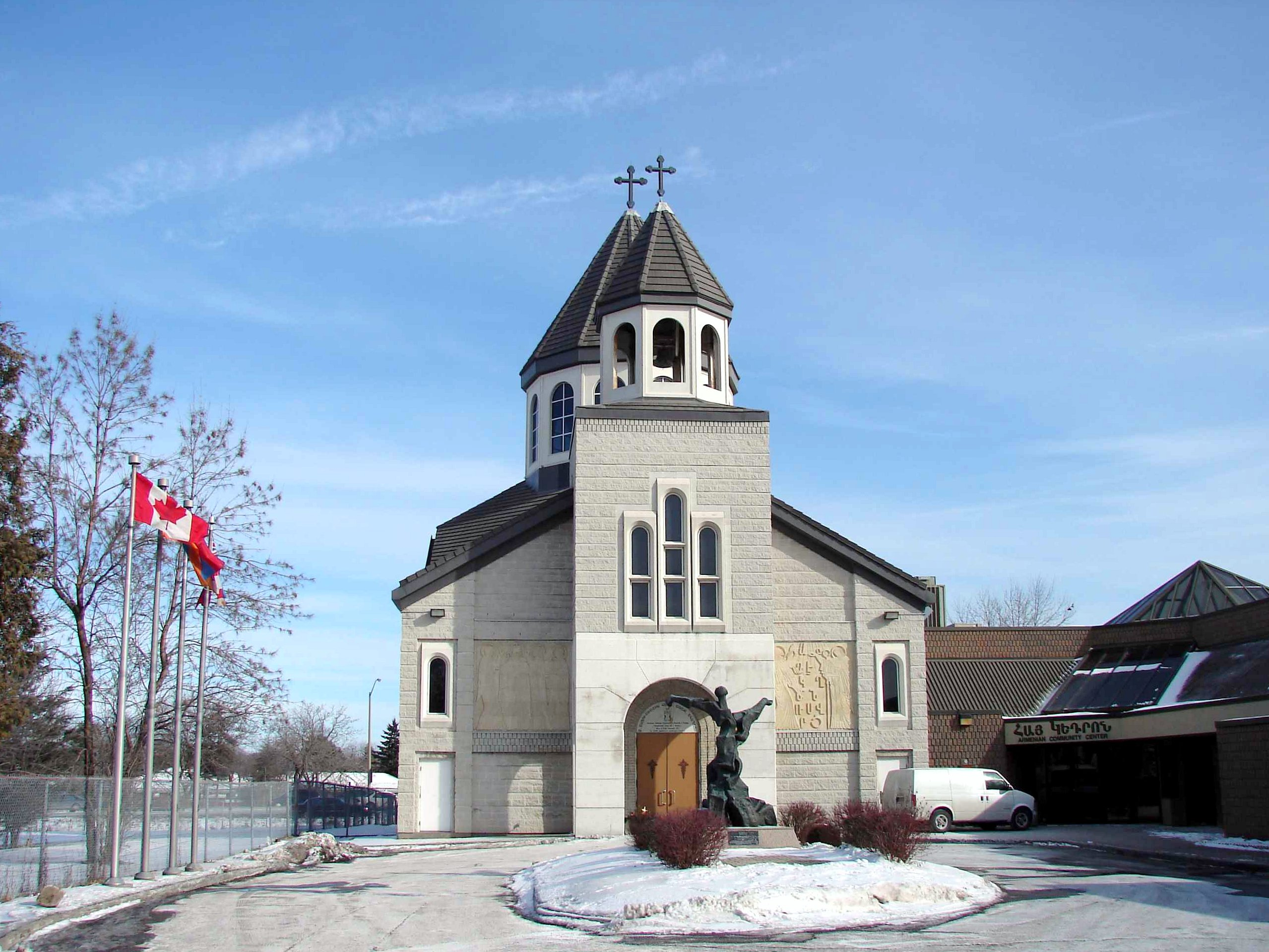 Saint Mary Armenian Church in Toronto, Canada. Constructed in 1983.